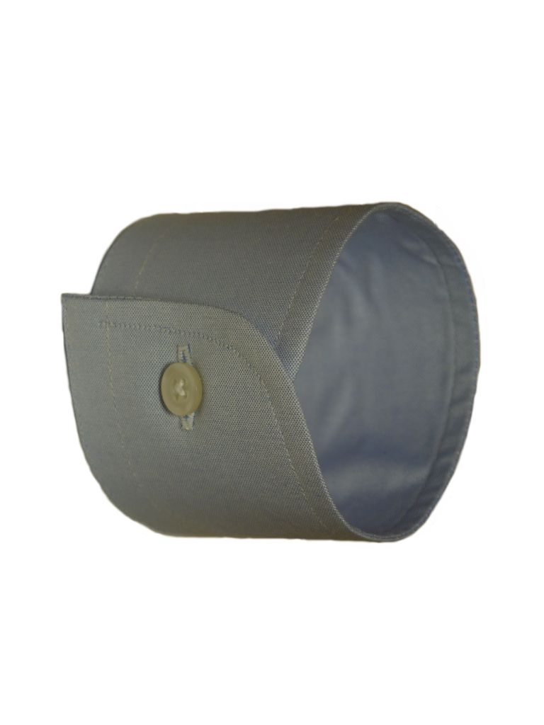 The most common cuff for a dress shirt